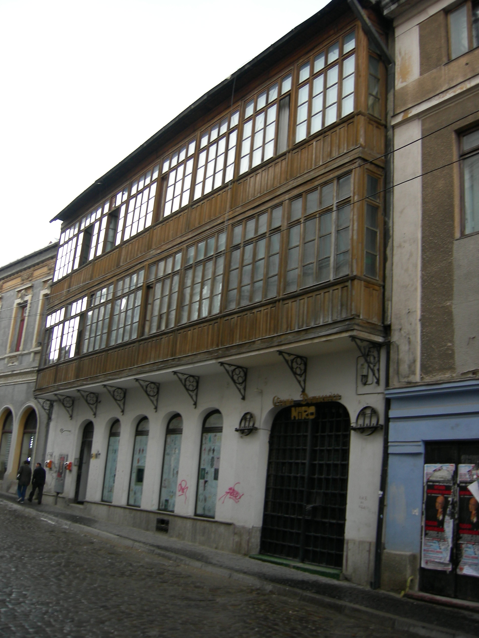 Curtea Sticlarilor (Glassmakers' Court) next to the ruins of the Curtea Veche (Old Court), Bucharest, Romania, now housing several glassmakers' studios, hence the name; one of these studios is Sticerom (sticle = "glass", Rom short for "Romania"). I had long been under the impression that this was an inn, but a Bucharestean correspondent says that the building was actually part of the Old Court, the "Palatul Doamnei şi Coconilor" ("The Palace of the Ladies and Lads"), built by Prince Ştefan Cantacuzino in 1714-1716. At that time the Curtea Veche would have comprised much of what is now the Lipscani district.